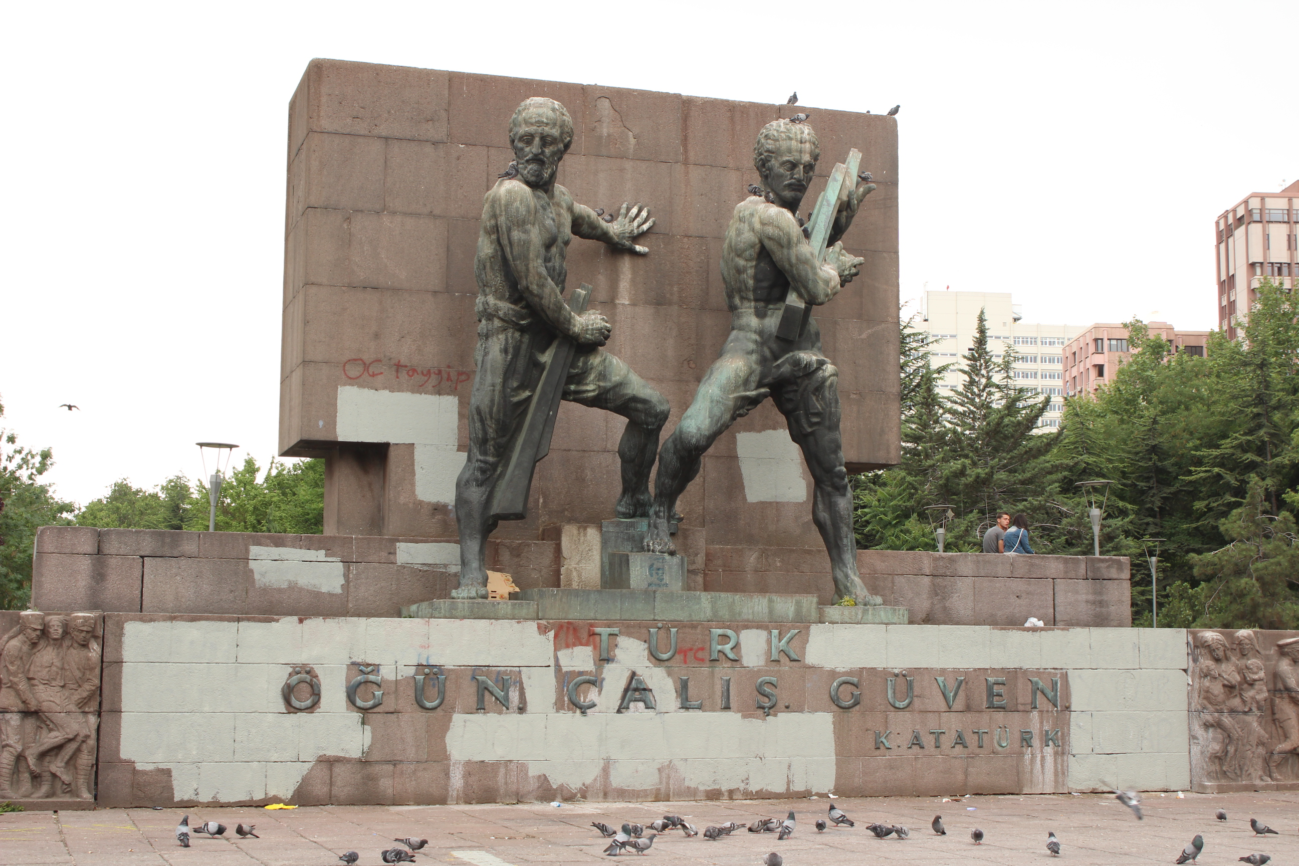 Security Monument of Ankara, been vandalised during the Anti-Government protests in June 2013.